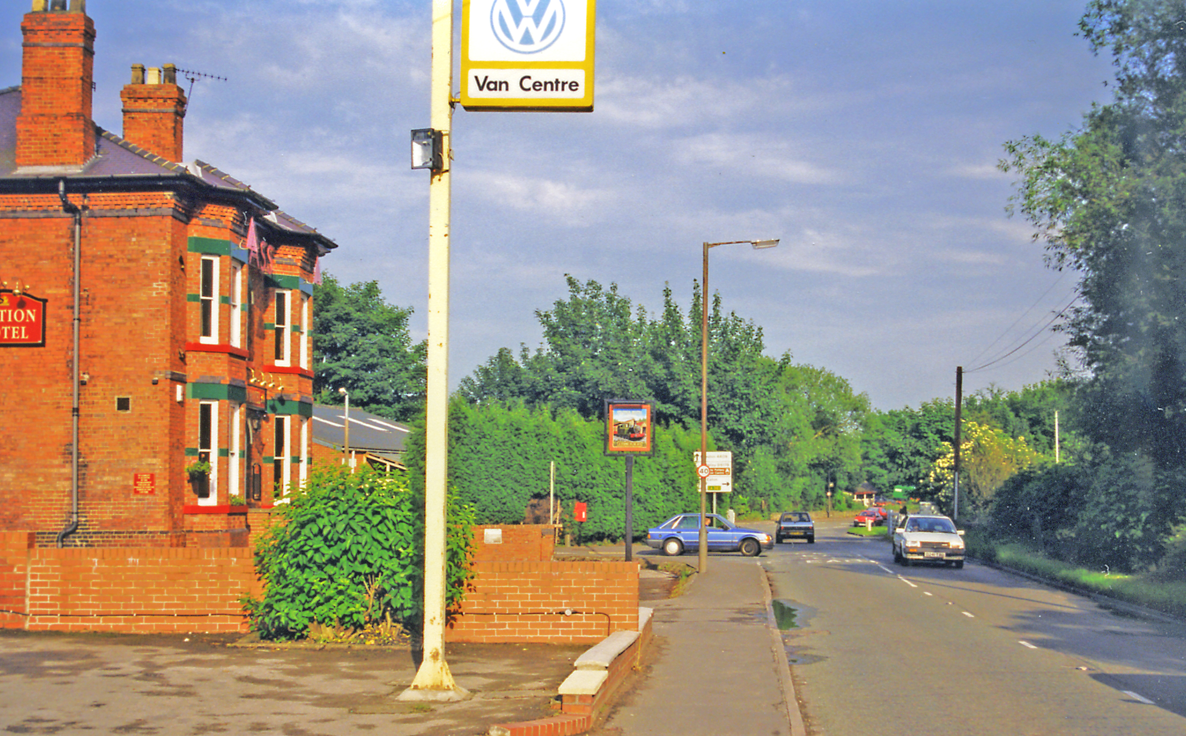 Kilburn: approaching level-crossing at former station, 1998. View eastward by the Station Hotel. The blue car is just leaving Brickyard Lane and the crossing is just after it: Ripley and Butterley to the left, Little Eaton Junction to the right. The station had been on the right, closed 1/6/30.